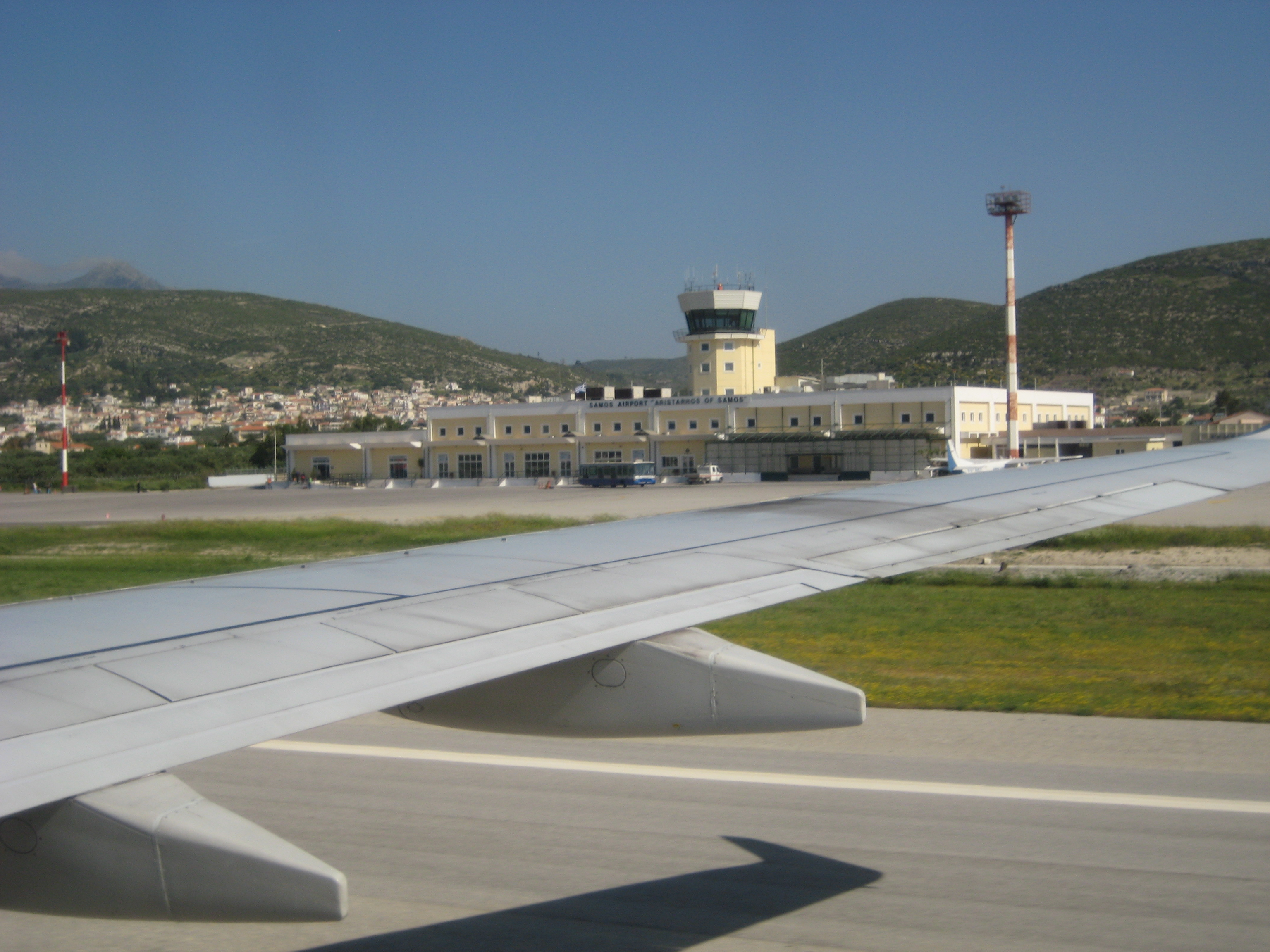 Samos Airport seen from a Boeing 737-800.